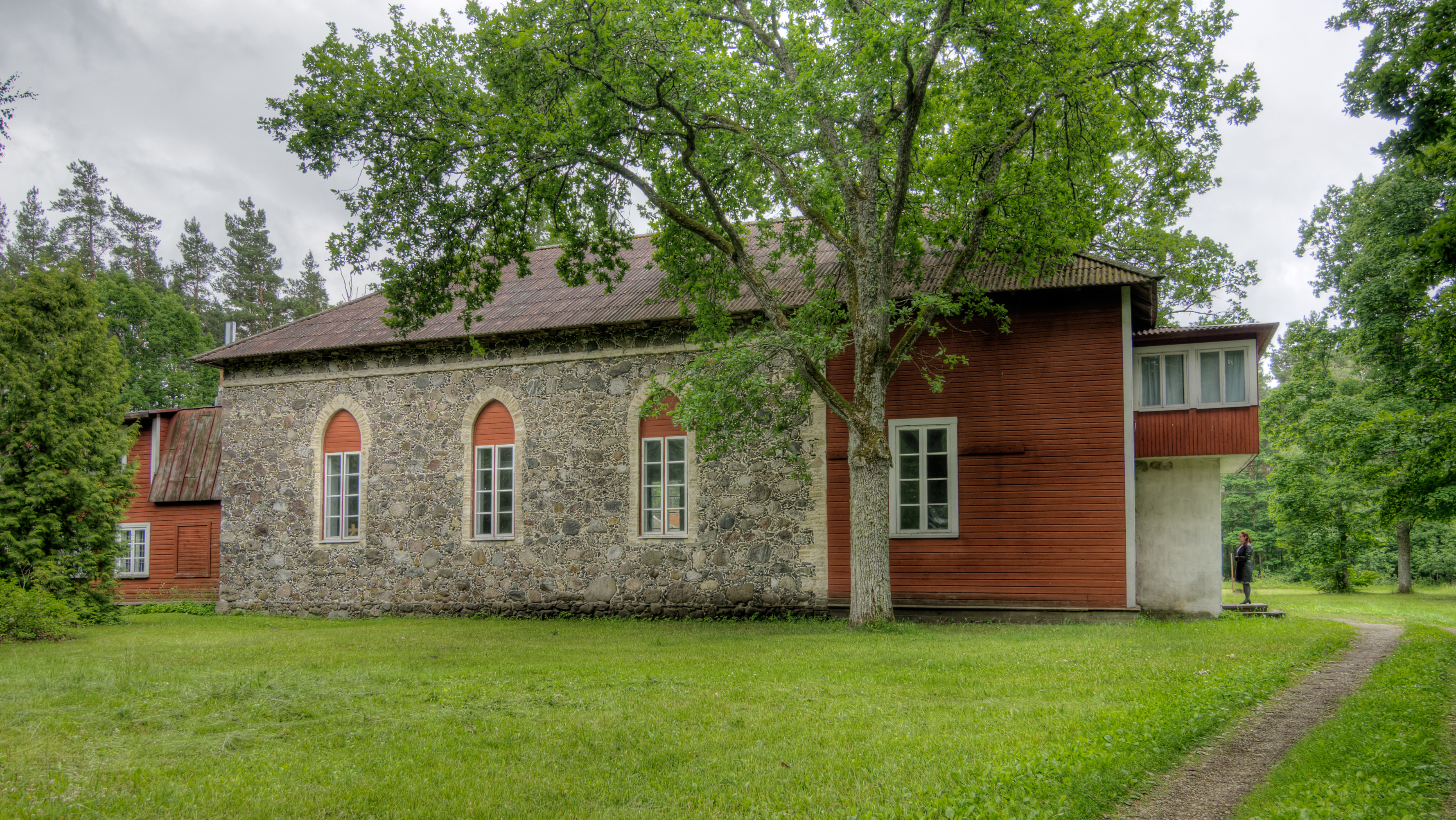 North side of Uulu church